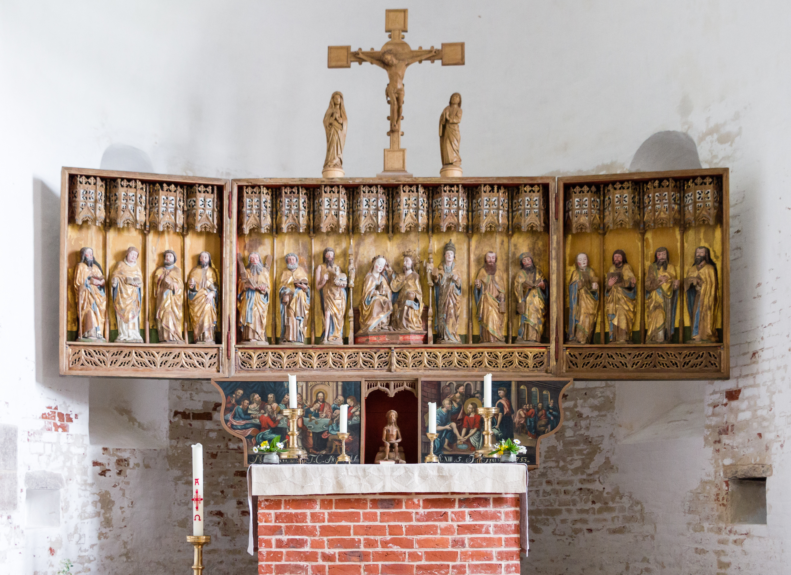 This is a photograph of an architectural monument. Designation: Church St. Johannis mit equipment Construction time: 12th century Description: The Protestant church was built in the 12th century. In the 13th century the church was extended. Inside there is a carved altar from the time around 1480. The granite baptismal font dates from the period around 1200. The pulpit was built in 1618. Category: Structural component, Material entity: Church St. Johannis Place: Municipality Nieblum, Collective municipality Föhr-Amrum, District Nordfriesland, Schleswig-Holstein, Germany Location: Karkstieg